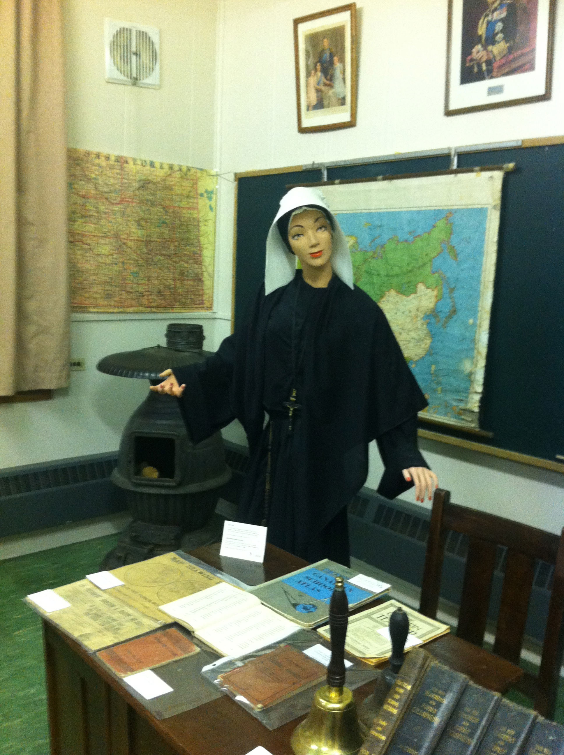 A mannequin in the school room of the Willow Bunch Museum. Willow Bunch, SK.